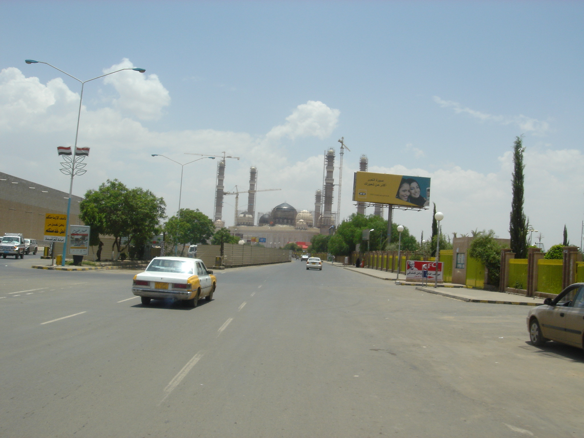 Main road, in the background Al Saleh Mosque, Sanaa, Yemen